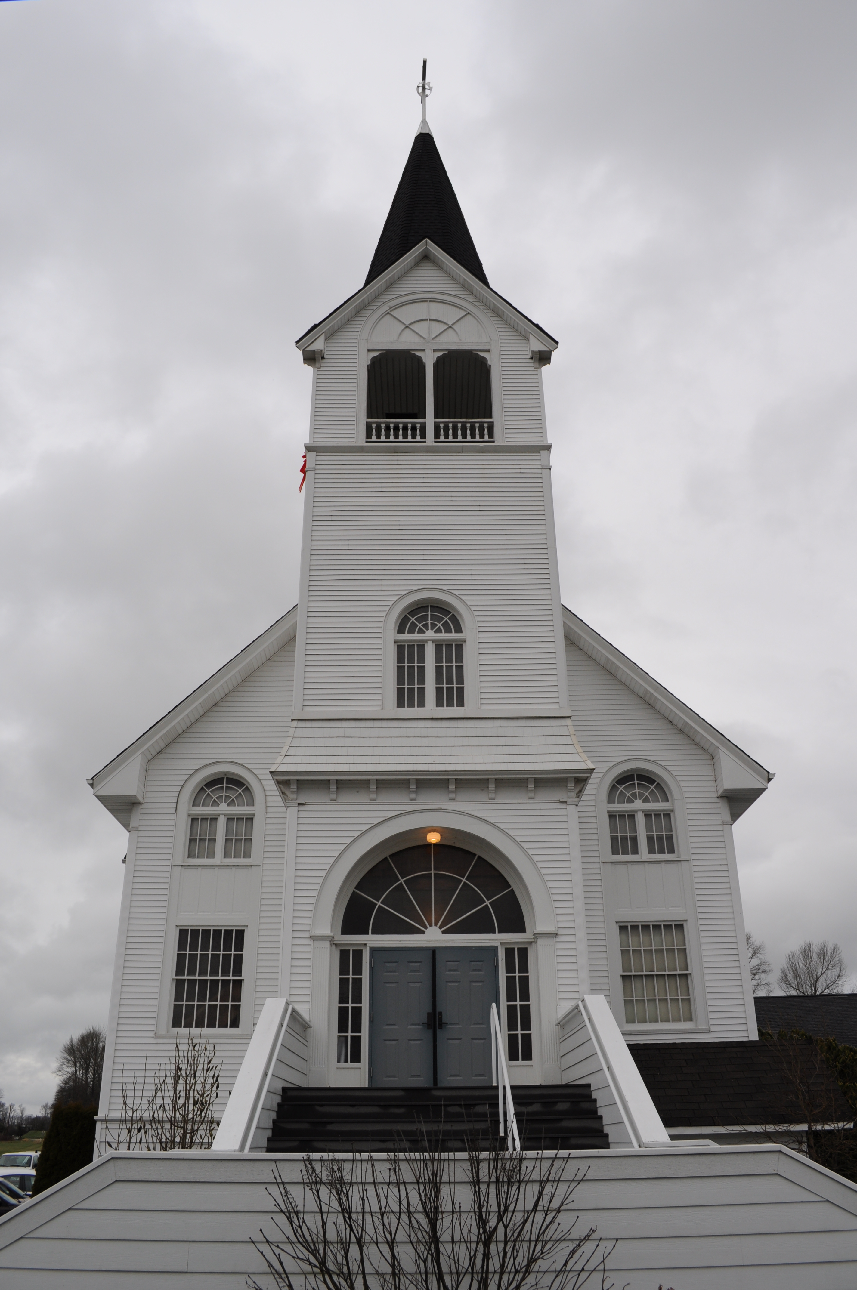 Fir-Conway Lutheran Church (ELCA), Fir Island, Washington, USA (just across the channel from Conway, Washington).